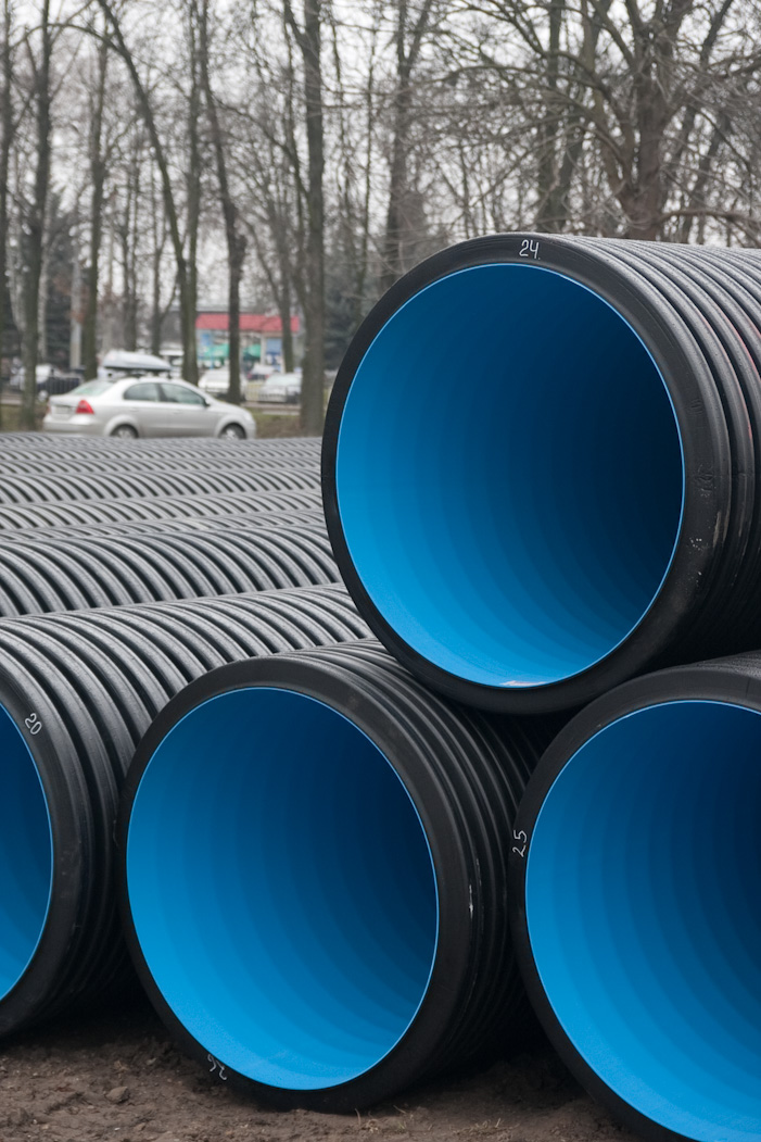 Sewer pipe 1200 mm Korsis Pro SN16 Reconstruction Lviv Airport